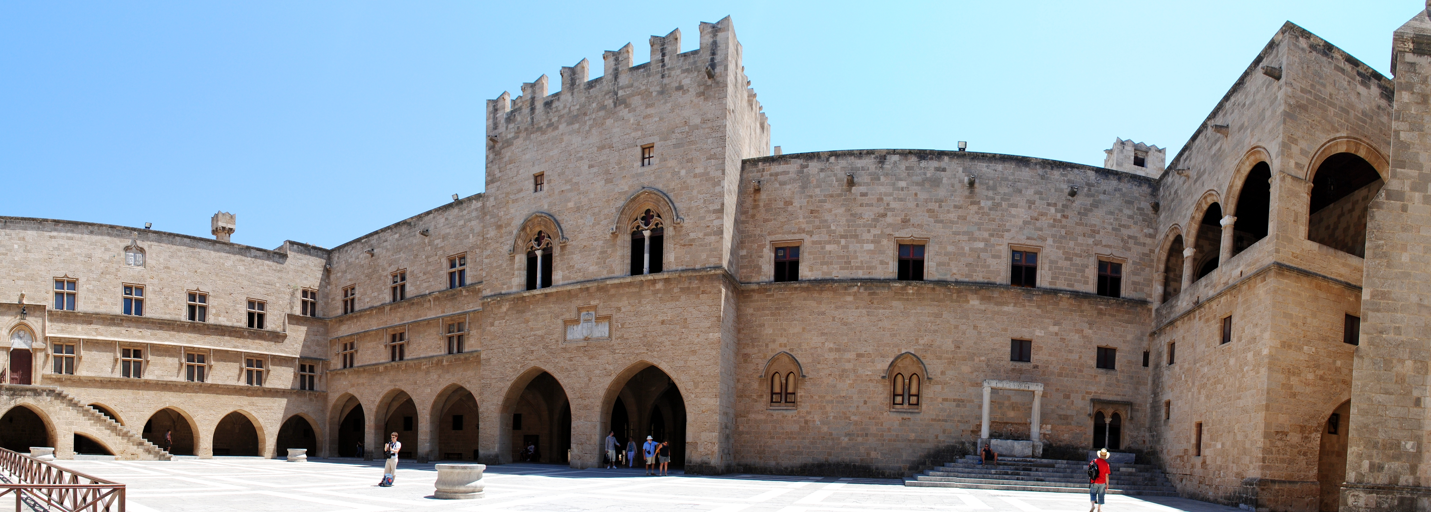 Panorama of the interior courtyard of the Palace of the Grand Master of the Knights of Rhodes. A retouched version can be seen here.